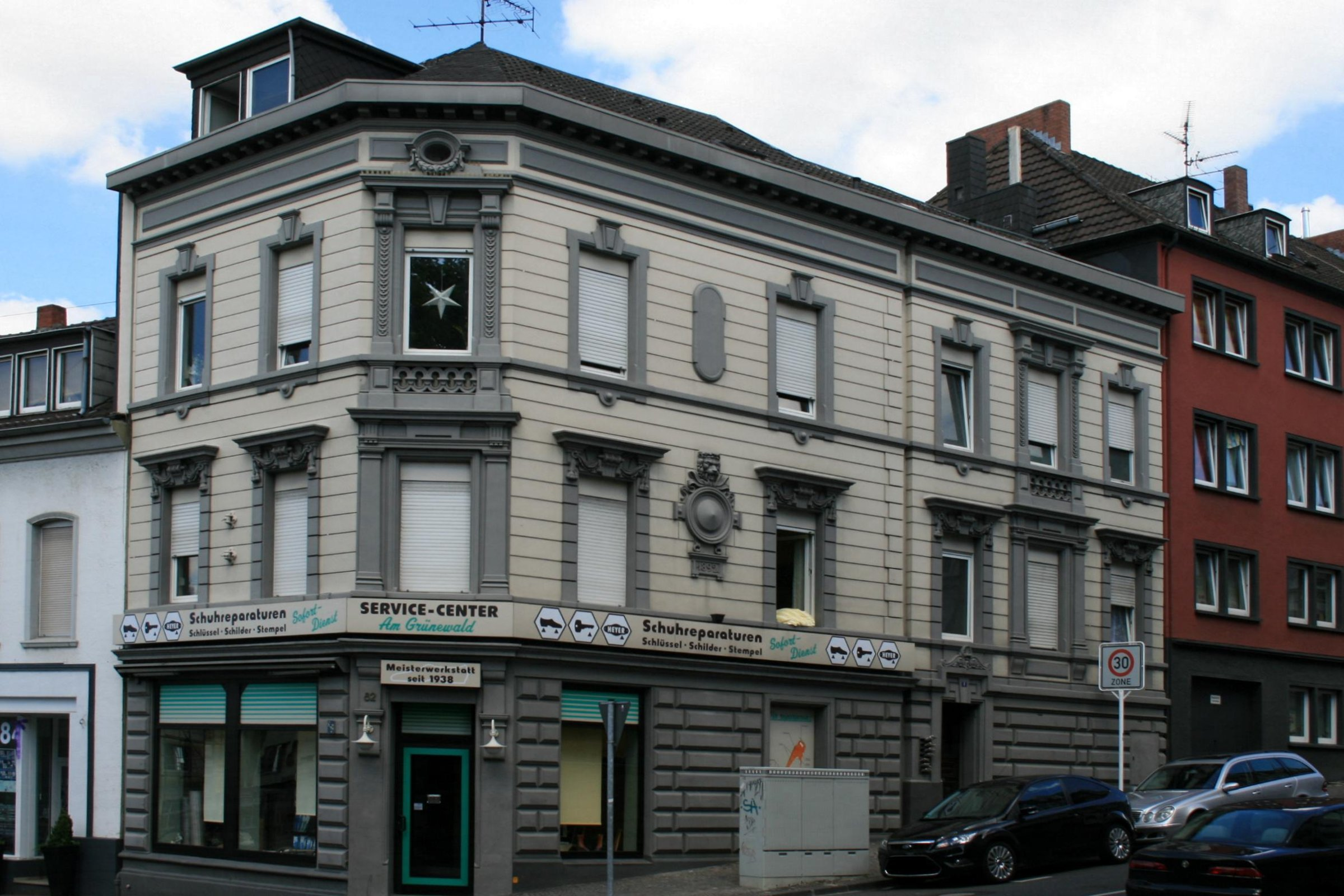 Cultural heritage monument No. B 067 in Mönchengladbach